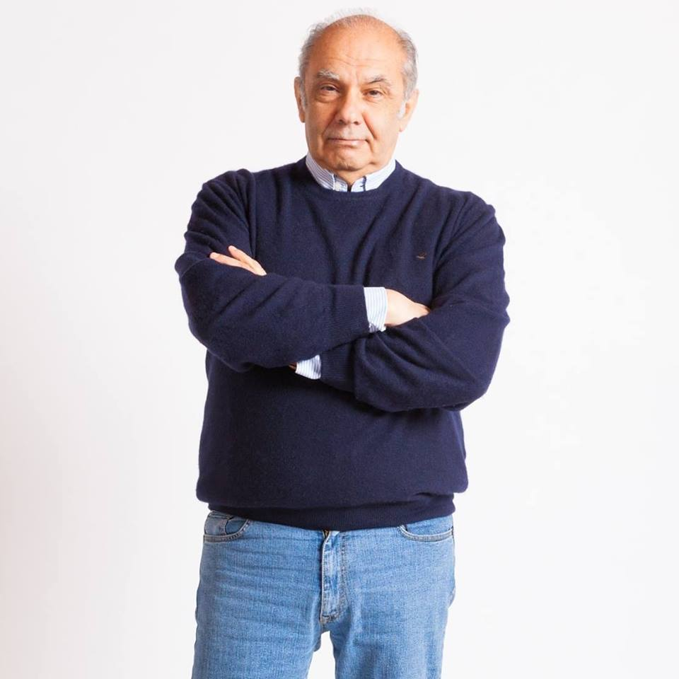 Foto of Alberto Salerno taken by myself